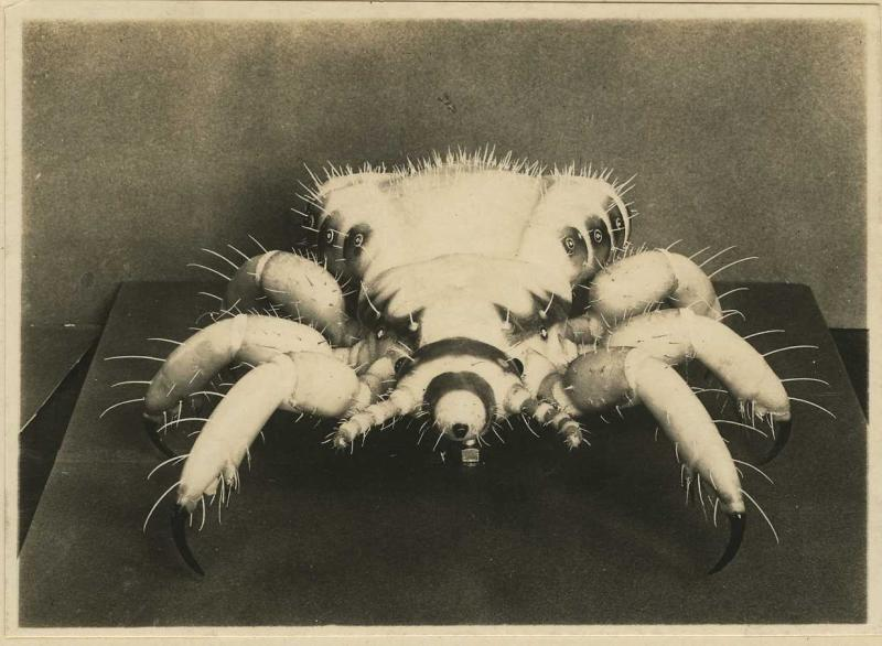 Louse, body, pediculus corporis model. (Ref:Reeve 32953)